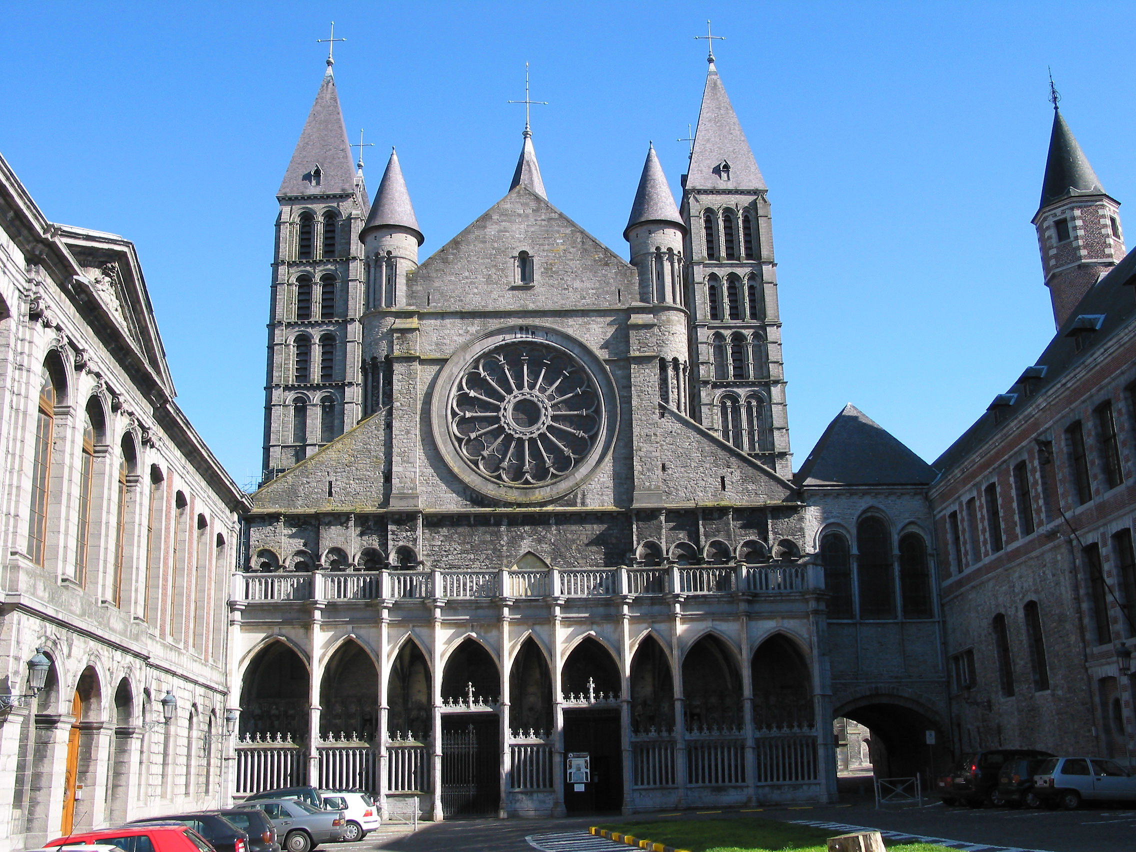 Tournai (Belgium), western porch of the Notre-Dame (Our Lady) cathedral (XIIth century).